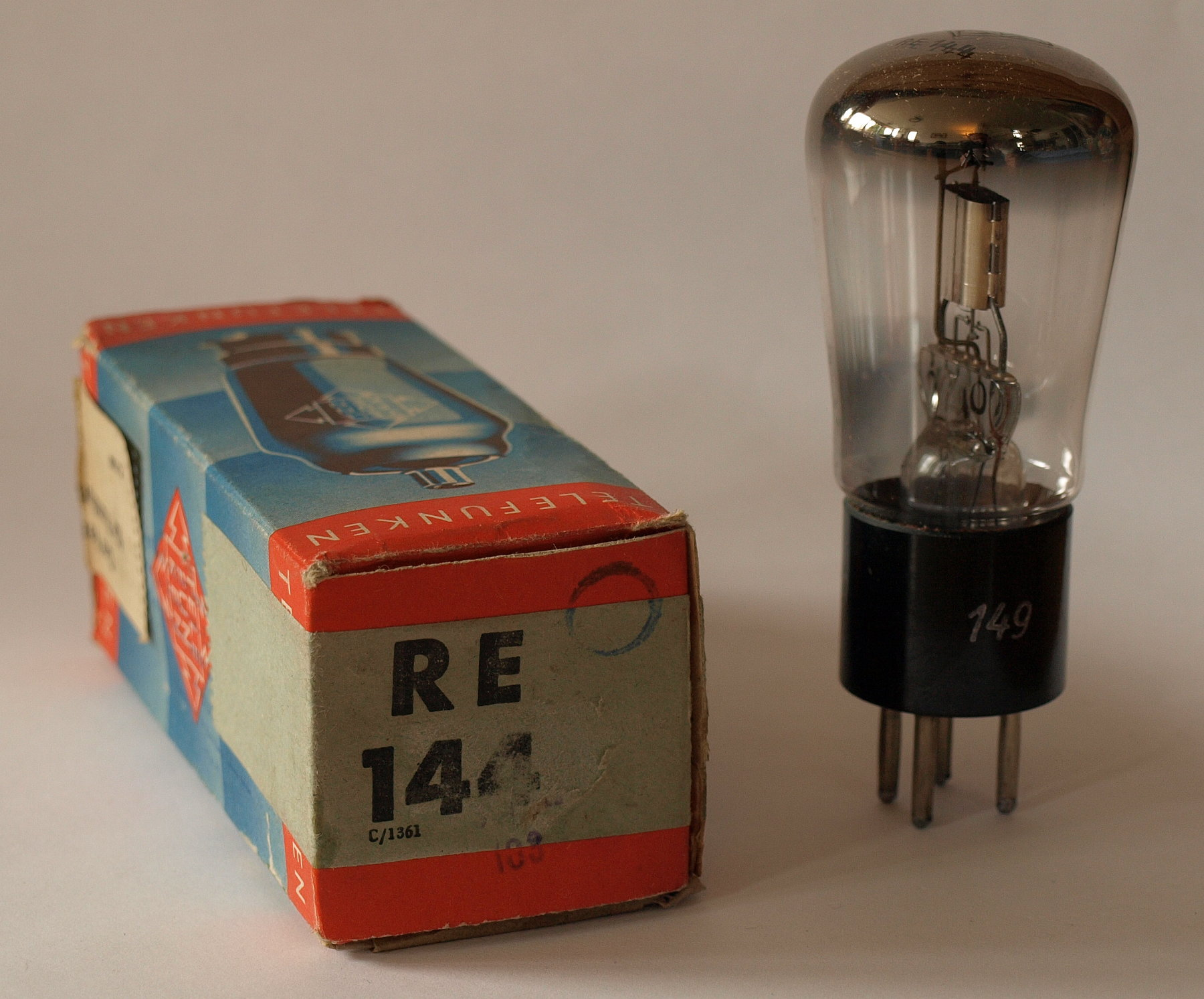 Telefunken Triode RE144 Made in 1937 The RE144 was mid 1920ies telefunken triode which was produced until the 1940ies